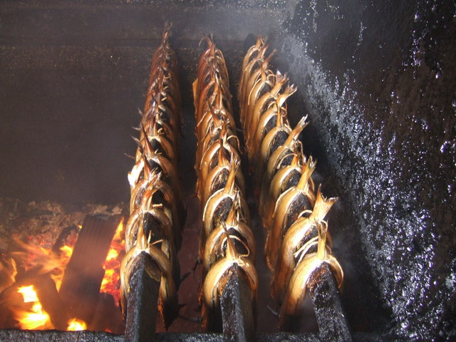 Arbroath Smokies Split Haddock are hot smoked and so are cooked